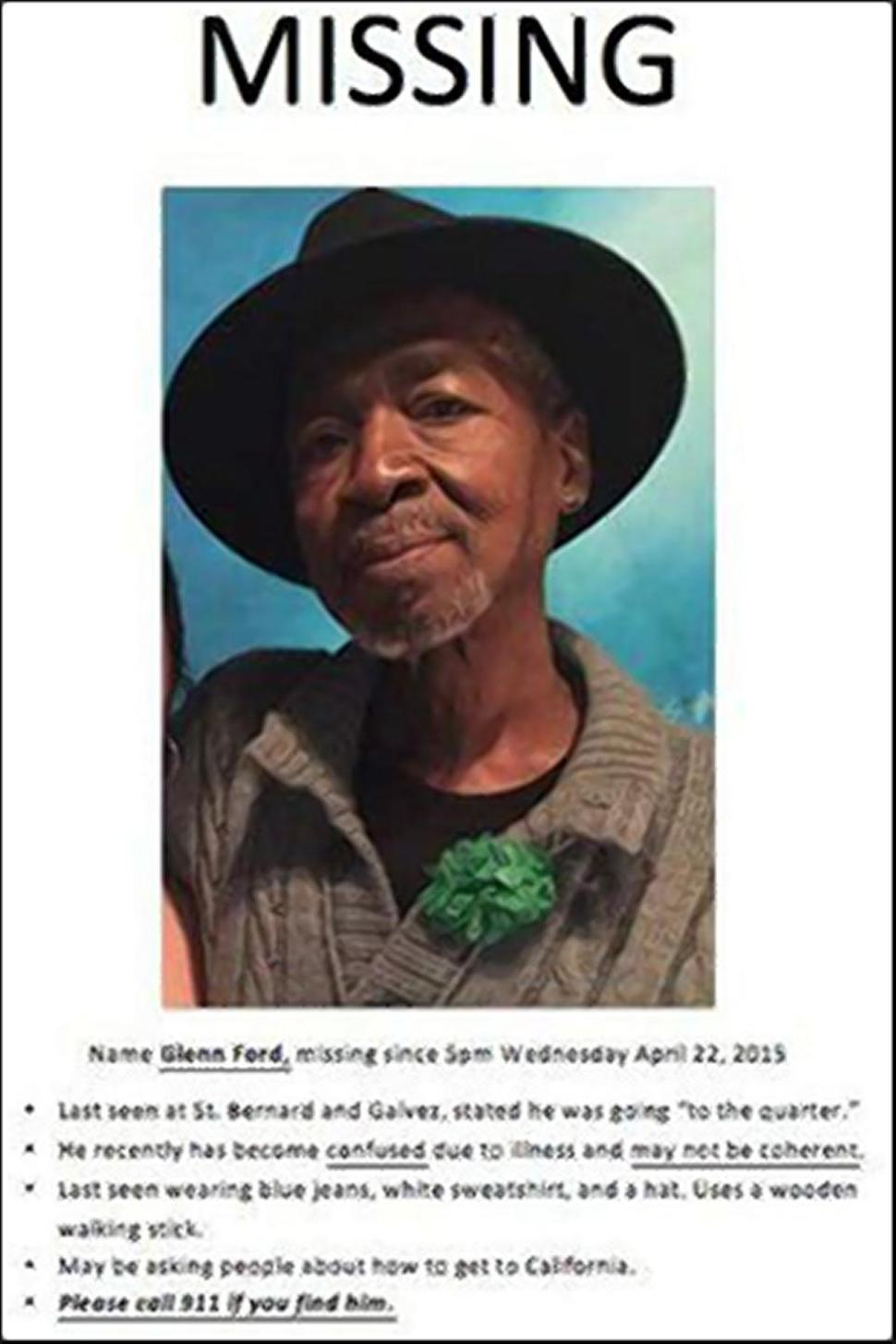 Mr. Ford went missing after a precipitous mental decline on 23 April 2015, this poster was distributed in New Orleans and to local media in efforts to locate him. With help of this poster he was able to be found the next day.